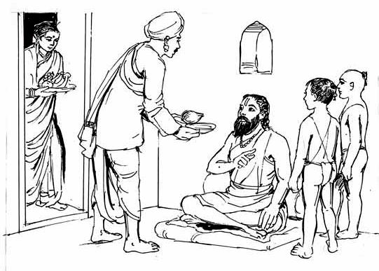 ramdas kalyan